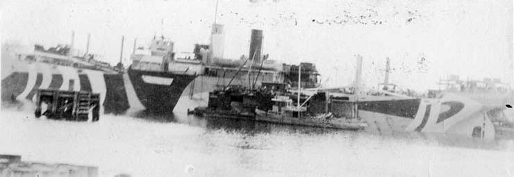 The US Navy refrigerated cargo ship USS Montclair (ID-3497) in port during World War I, painted in dazzle camouflage. Another ship, of identical topside configuration, is on her opposite side.